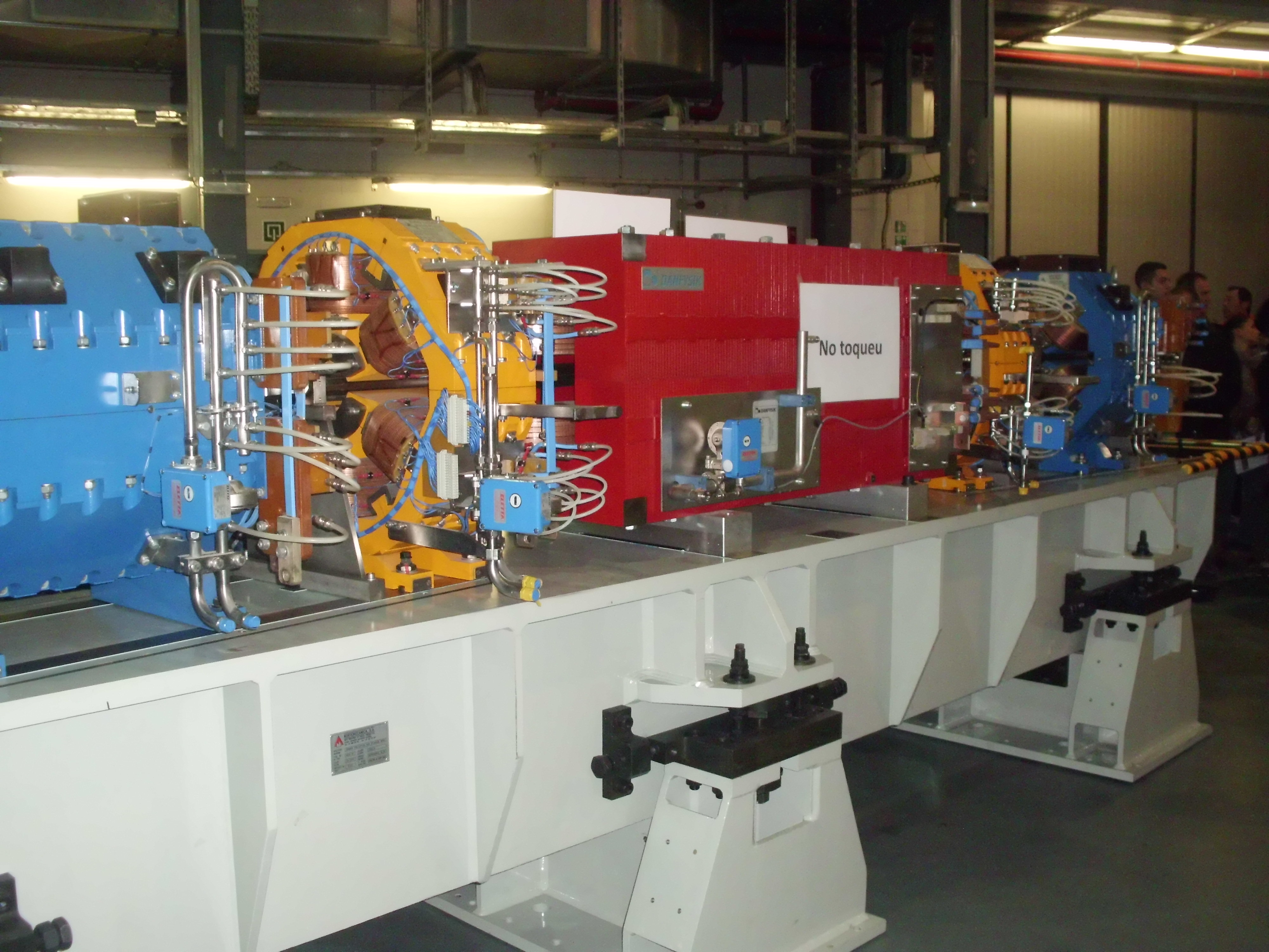 storage ring